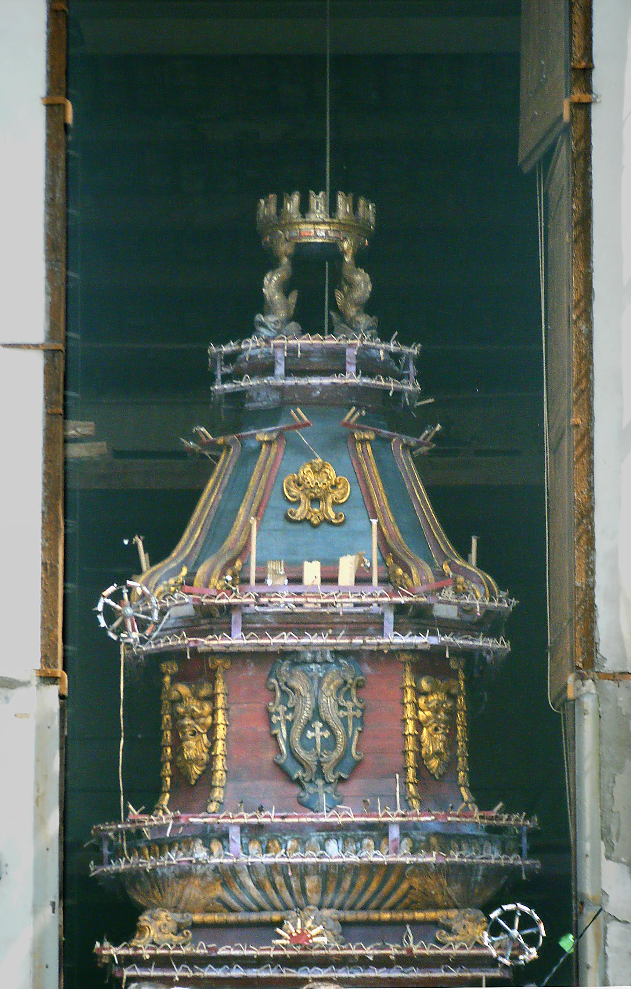 Scoppio del Carro2 (Florence)